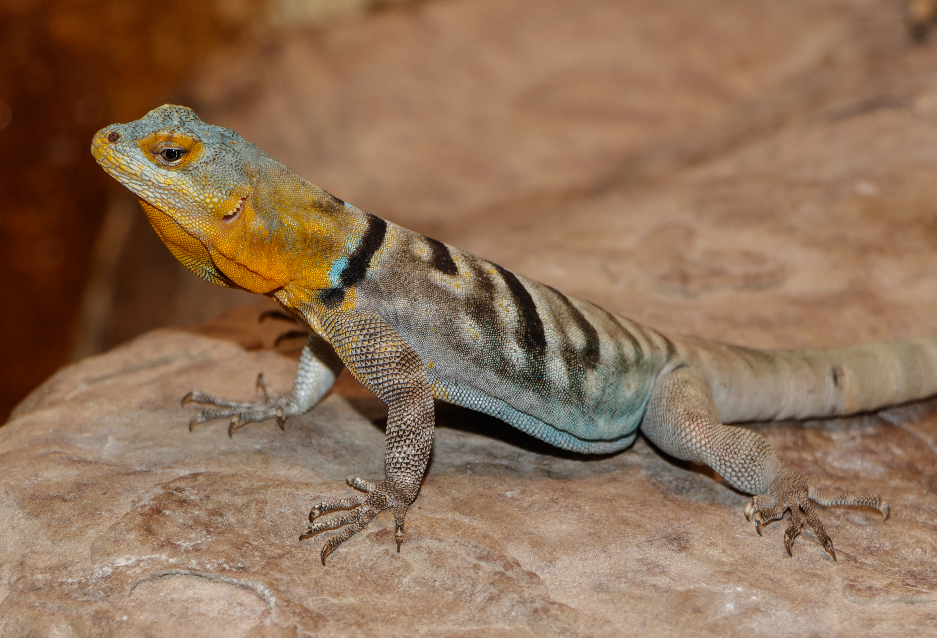 Petrosaurus thalassinus (Cope, 1863), Baja blue rock lizard; Wilhelma, Stuttgart, Germany.